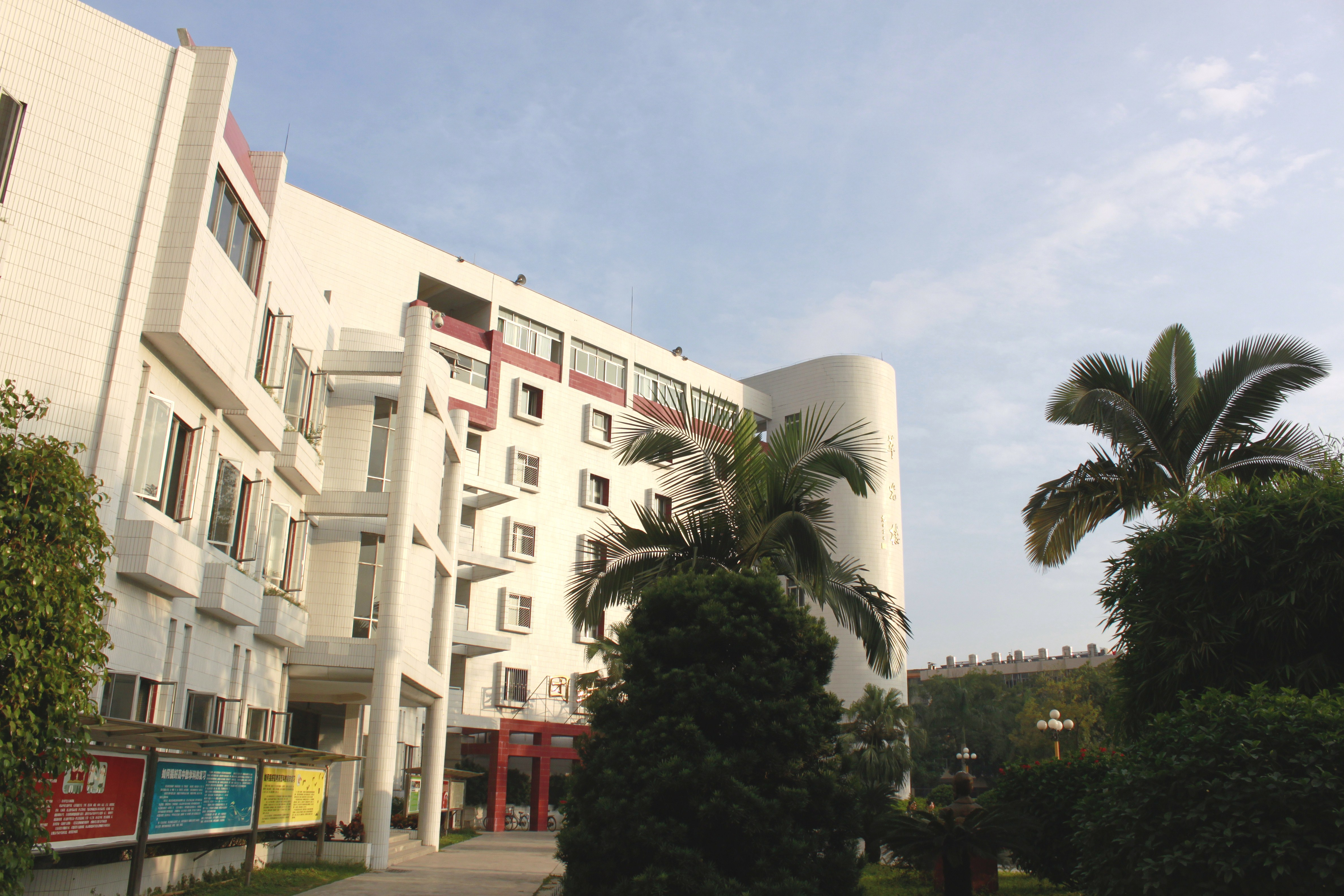 A view of Cunguang Buiding At Puning No.2 High School